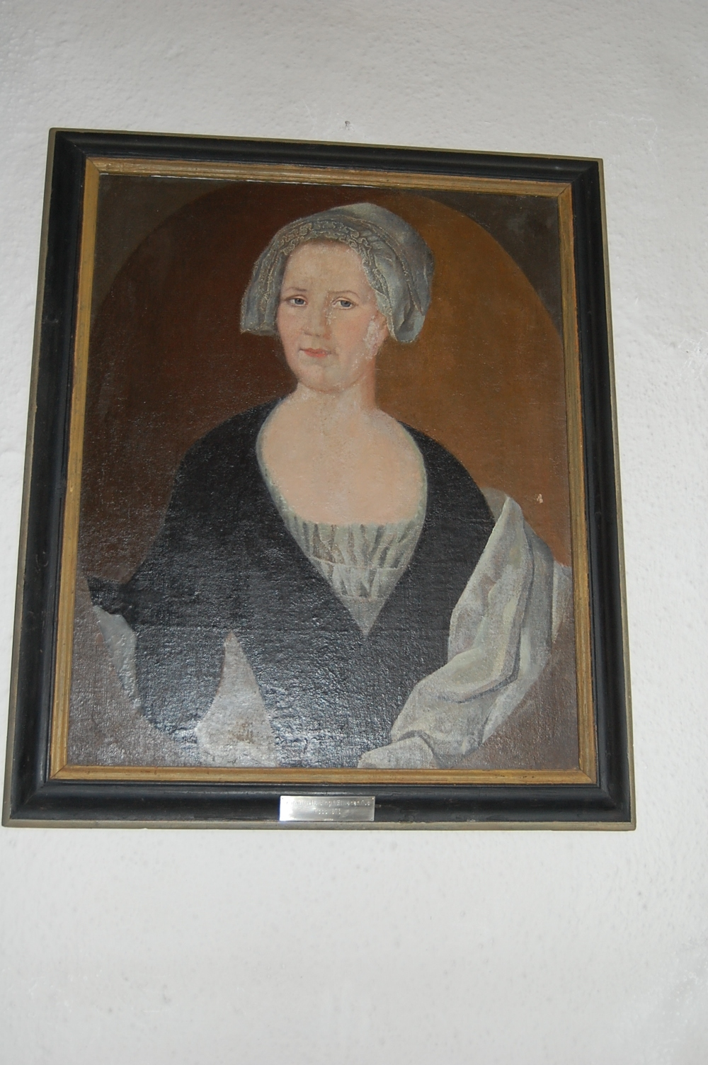 Painting of the former wife, Katarina Quiding (born with maiden name Elfvedalia 1675), to three of the priests in the church of Gammalstorp, county of Sölvesborg in Sweden